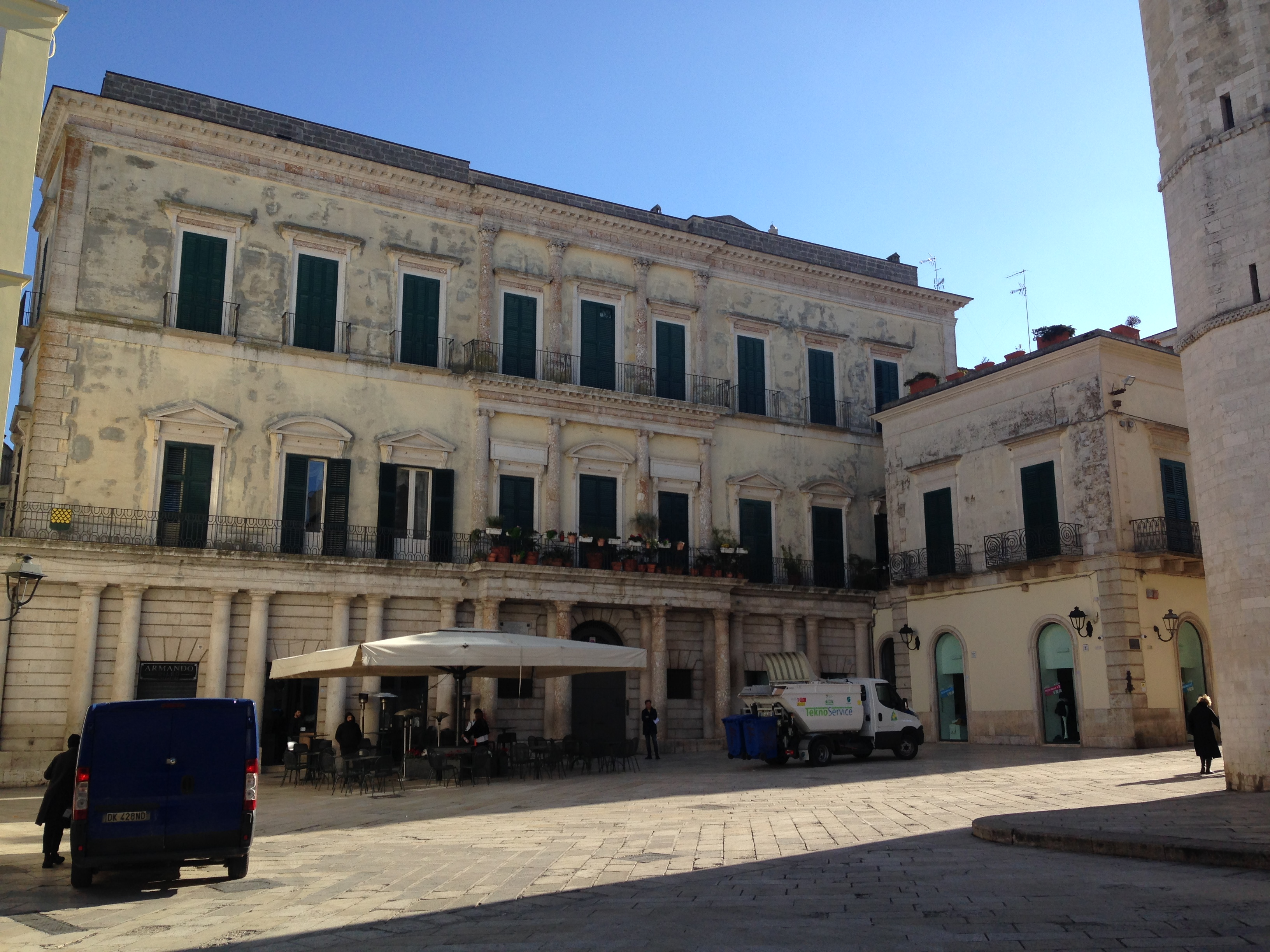 Palazzo Melodia (Altamura)